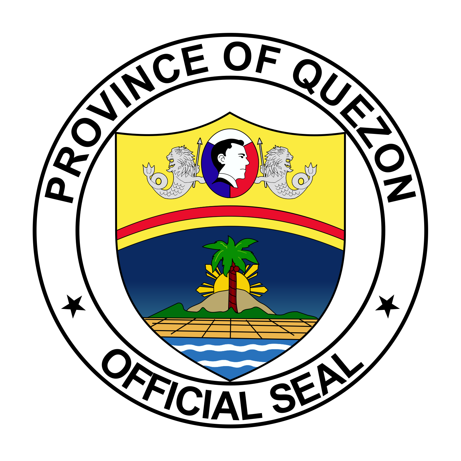 Provincial seal of Quezon, Philippines.